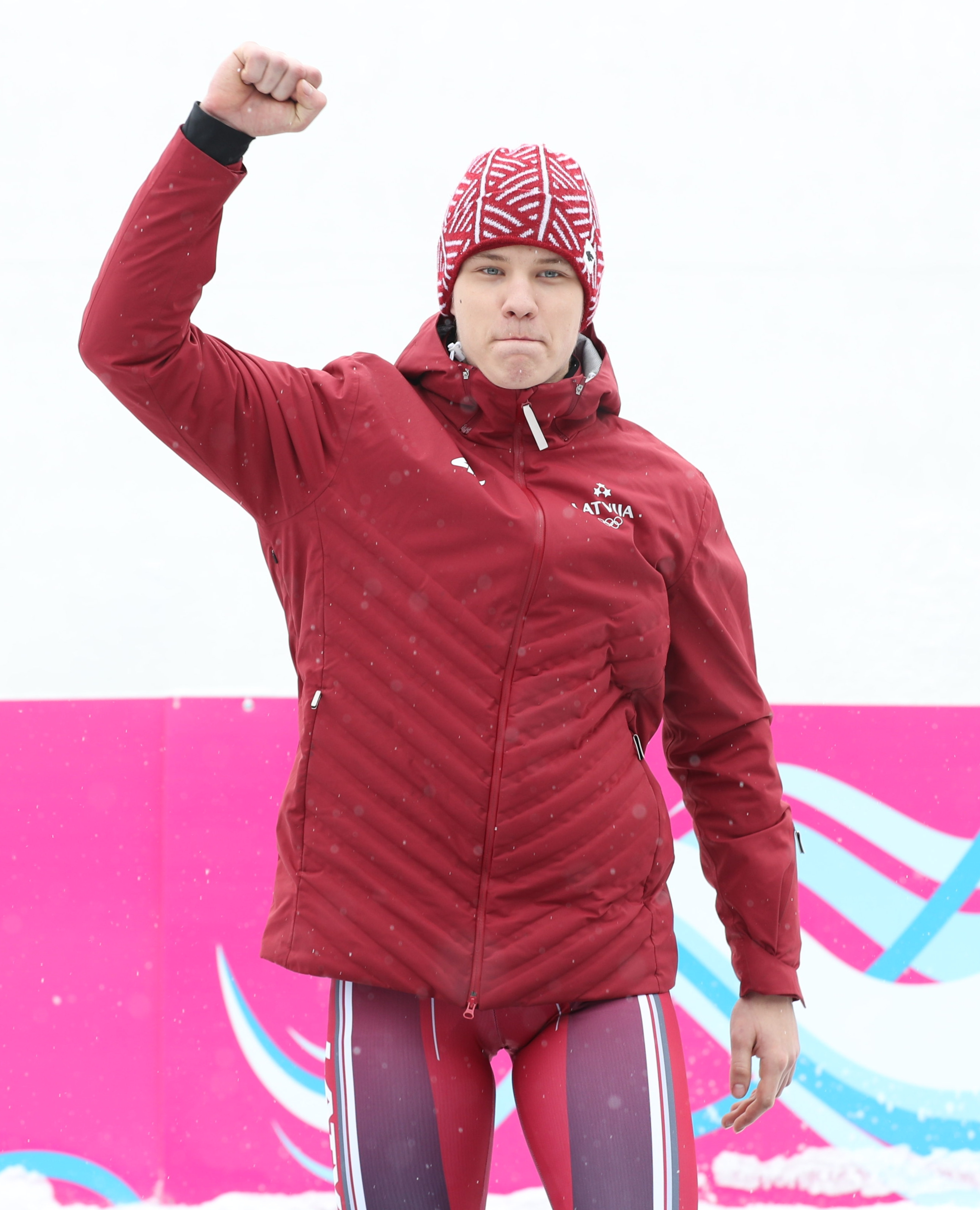 Mascot Ceremony Luge Men's Single at the 2020 Winter Youth Olympics in Lausanne